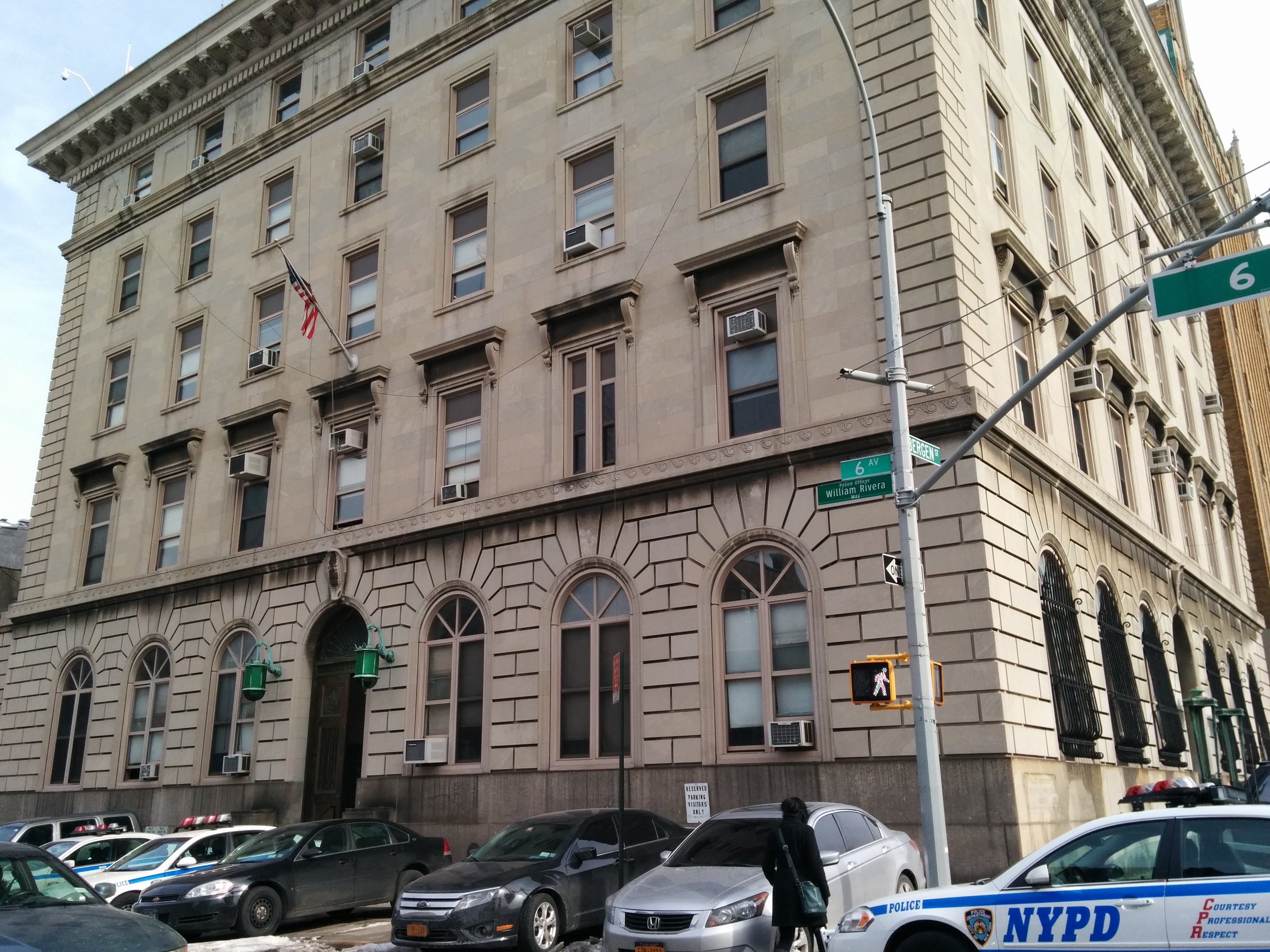 The NYPD 78th precinct building in Brooklyn. An exterior shot is used in the Brooklyn Nine-Nine television show.